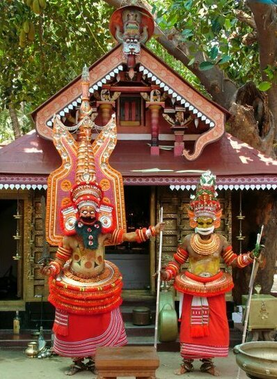 padavil sree muthappan